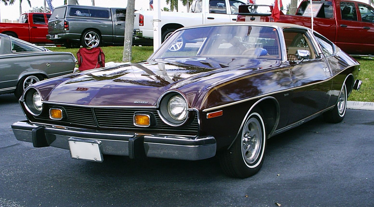 1976 AMC Matador Coupe - Brougham edition finished in Dark Cocoa Metallic (paint code -H4) with optional vinyl roof cover. Front left view.